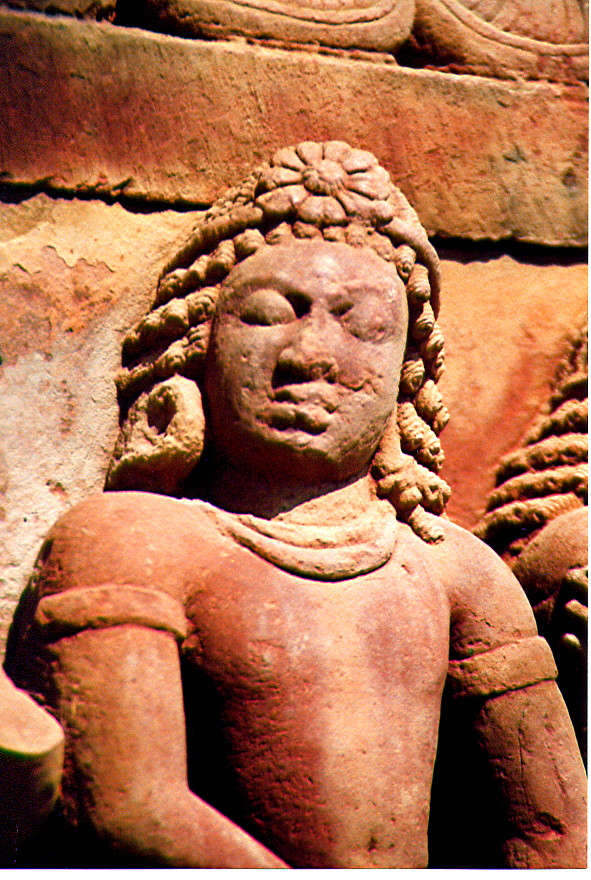 Stone carving of Yudhisthira at Vishnu Temple of Deogarh, India